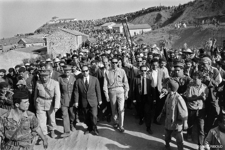 Ait Maouche Beni maouche krim belkacem boudiaf ait ahmed si hmimi et autres a Ait Maouche en 1962